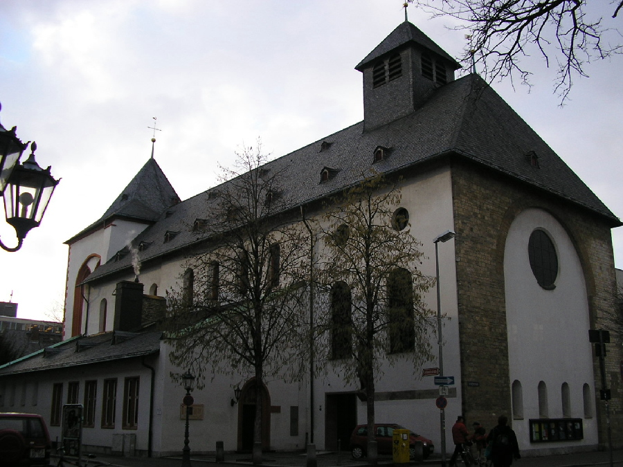 St. John, eldest church in Mainz.